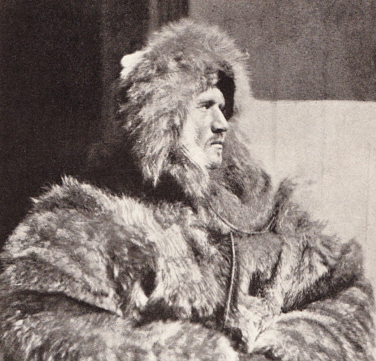 Crop of retouched photograph of Frederick Hjalmar Johansen (1865-1913), taken in 1893